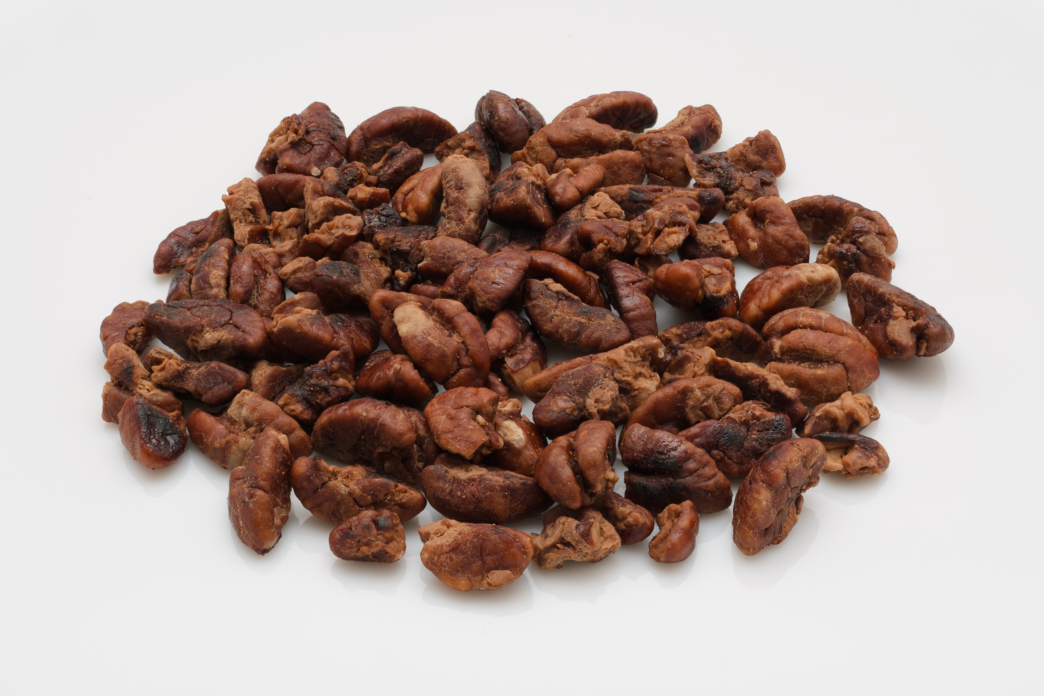 Eight-frame focus stack of Chinese hickory nuts (Carya cathayensis).